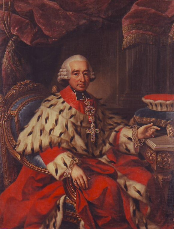 Portrait of Friedrich Carl Joseph von Erthal (1719-1802)